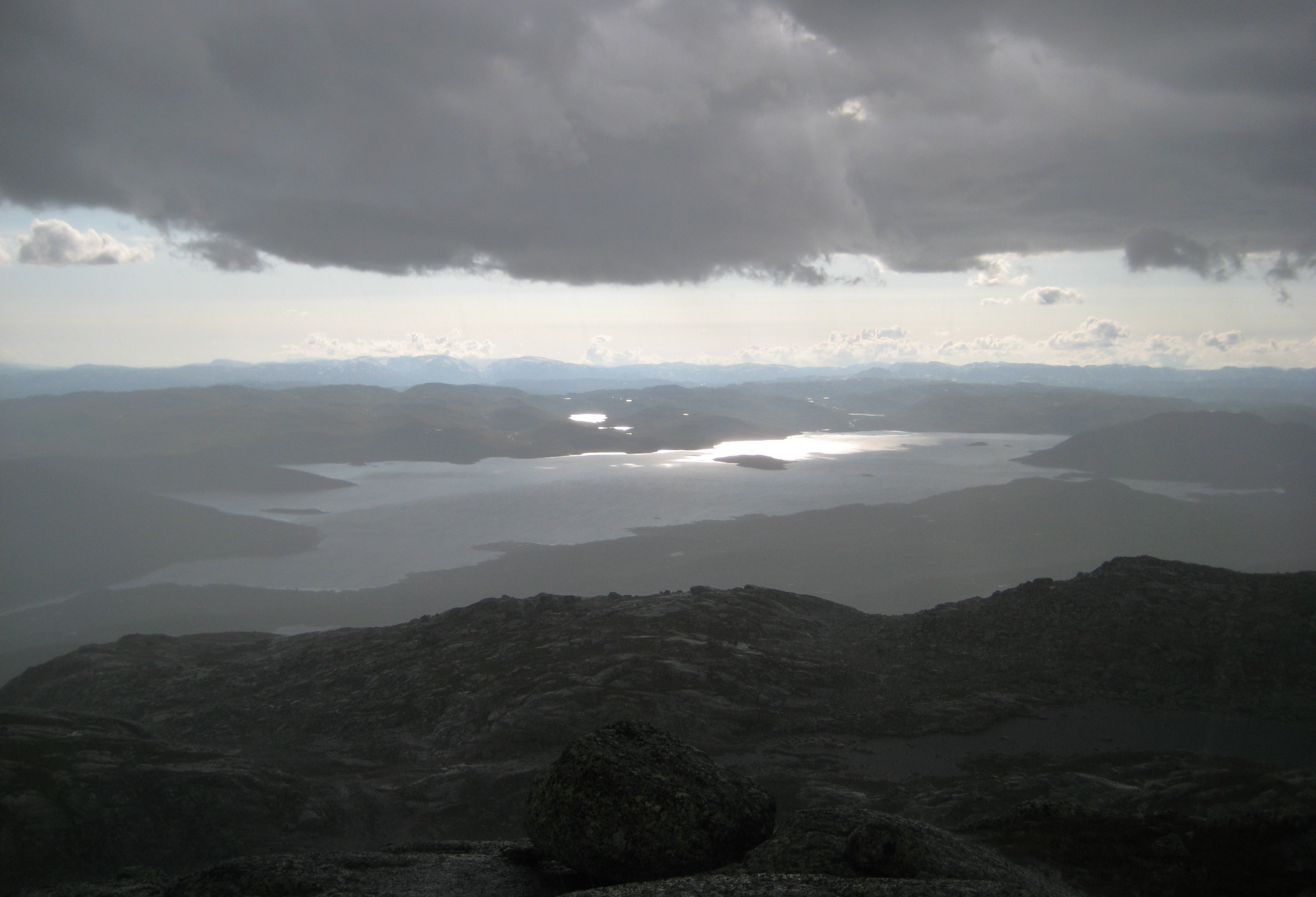 View of Songavatnet from Stokkholmen